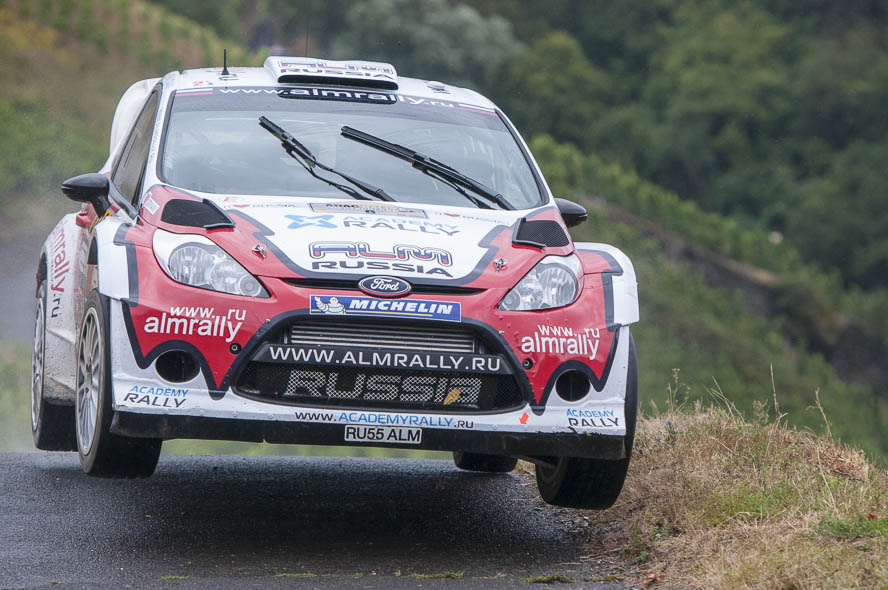 Rally Germany 2012 ADAC Rallye Deutschland,Drohntal 1,Evgeny Novikov,Ford Fiesta RS WRC,M-Sport Ford WRT,M-Sport Ford World Rally Team,Motorsport,Nicolas Klinger,Rally,Rallye,Rallye Deutschland,SS13,WP13,WRC